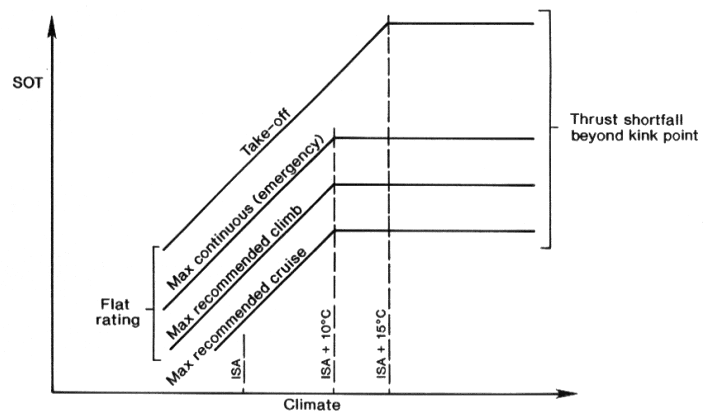 Typical Civil Engine Rating System. SOT (turbine entry temperature) vs. intake temperature.